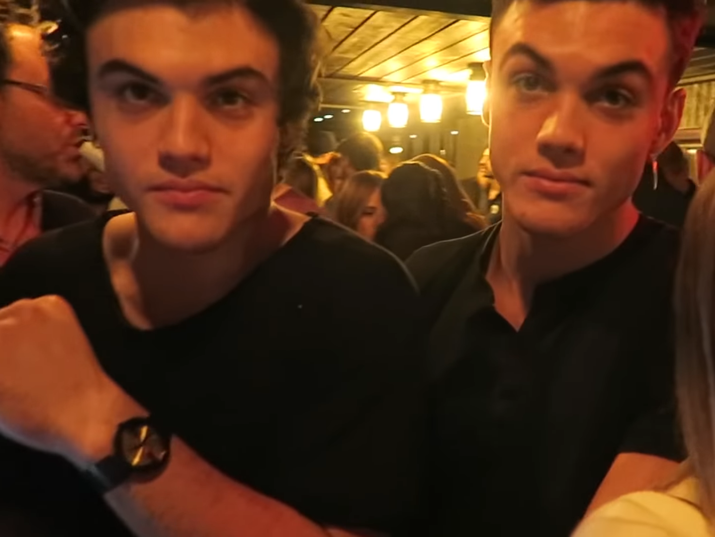 Dolan Twins (Ethan on the viewer's left and Grayson on the right) at the Thinkific YouTube Creator Summit in May 2017